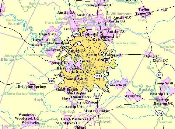 Map of Austin, Texas